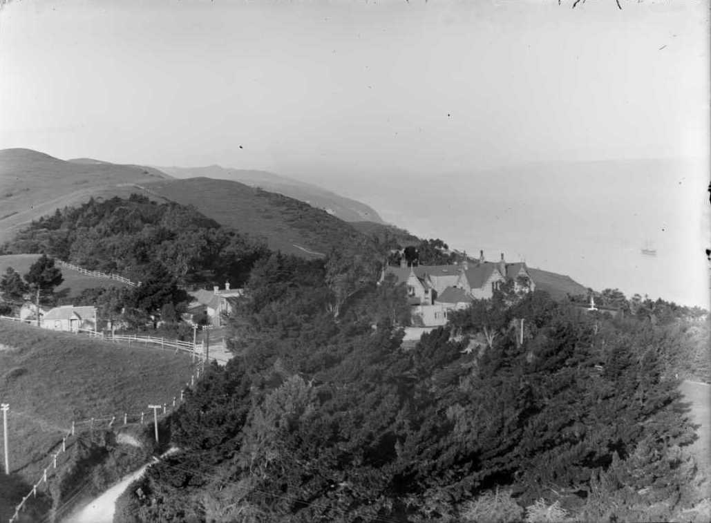 The Grange at the intersection of its former driveway Wadestown Road (built by Rhodes) and Sefton Street, Wadestown, Wellington